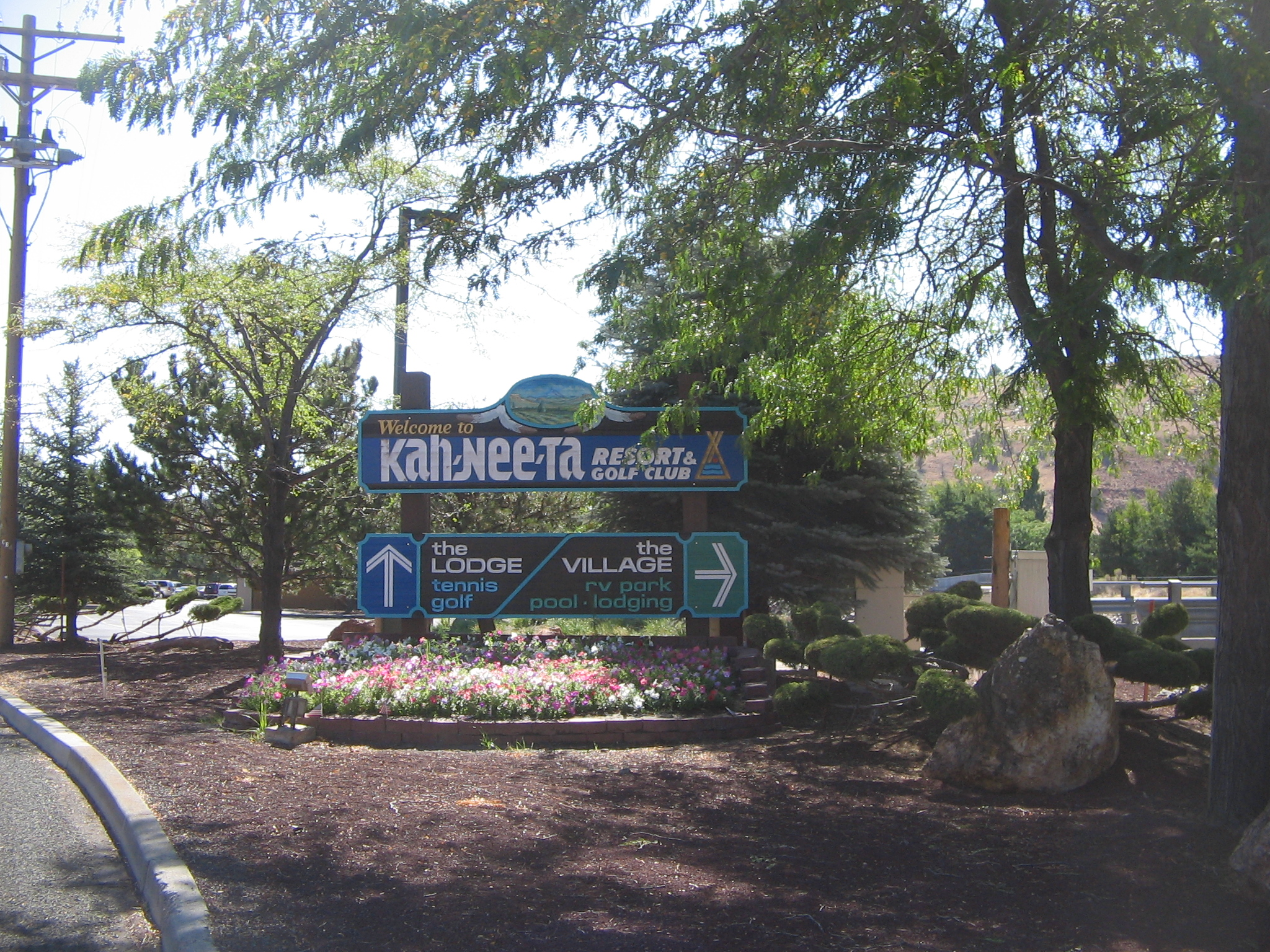 Kah-Nee-Ta High Desert Resort and Casino. Photo should be credited (as Creative Commons requires) to "Ken Morton".